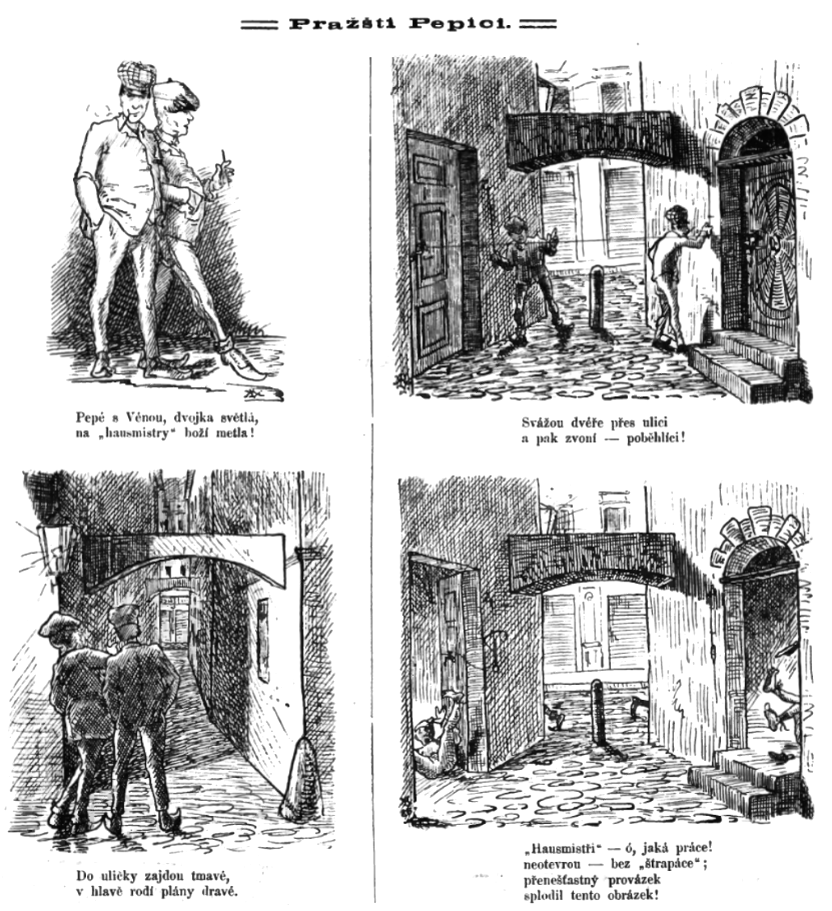 A comics, showing one of the practical jokes of "Prague Joes" (Pražští Pepíci), members of underclass youth from the late 19th century